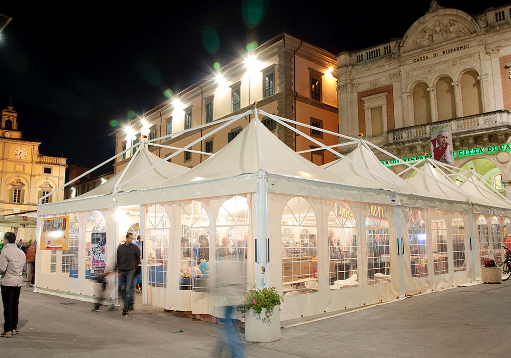 Marquee tent with 4 peacks - Giulio Barbieri S.p.A.